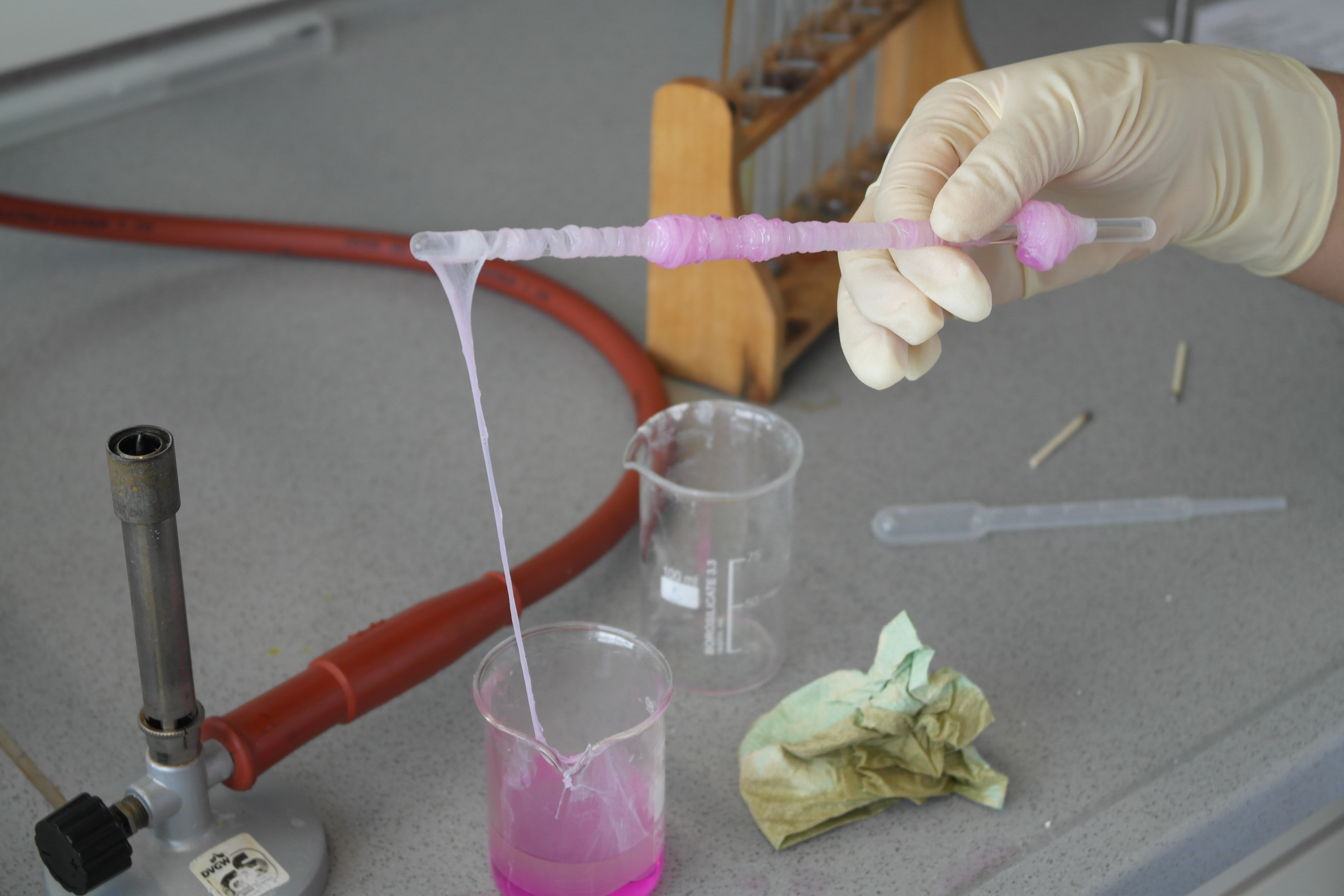 Synthesis of Nylon. The nylon is pink, because it is wet with a solution which has an indicator in it.